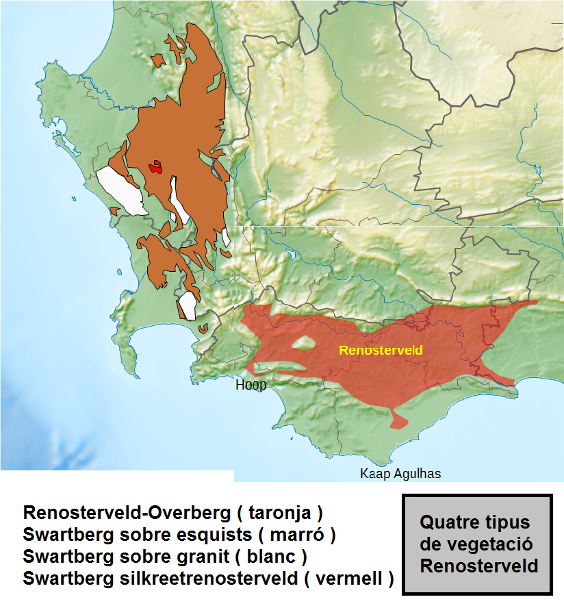 Hypothetical original extension of the various Renosterveld, classified in four types in this image.